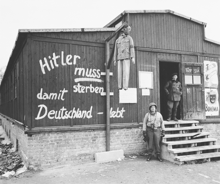 An American soldier poses next to an effigy of Hitler hanging in front of a barracks in the Buchenwald concentration camp. Grafitti on the side of a barracks reads "Hitler must die for Germany to live".